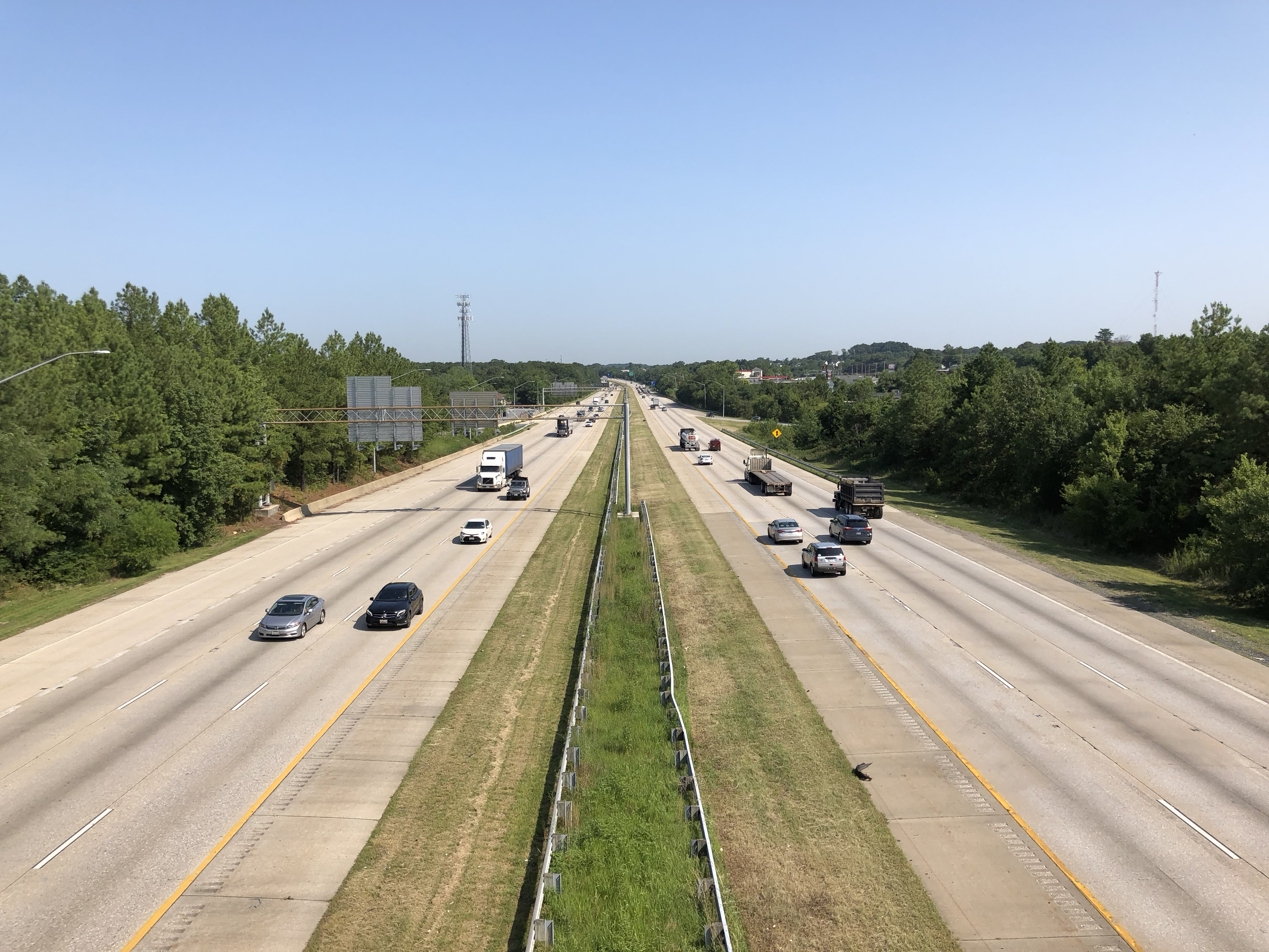 View north along Interstate 97 (Robert Crain Highway) from the overpass for Benfield Boulevard on the edge of Gambrills and Severna Park in Anne Arundel County, Maryland